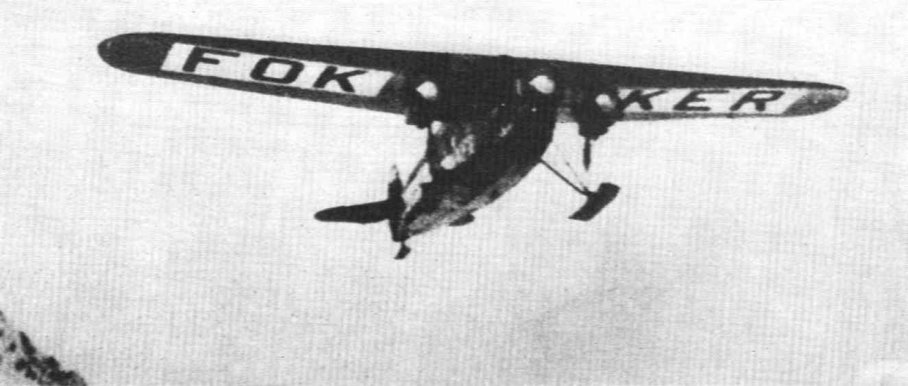 The Fokker F.VIIa/3M "Josephine Ford" in flight with which Richard E. Byrd and pilot Floyd Bennett attempted a flight over the North Pole in May 1926. The flight went from Spitsbergen (Svalbard) to the North Pole, returning to its take-off airfield. The distance covered was 2,190 km in nearly 16 hours. Byrd and Bennett claimed to have reached the Pole.